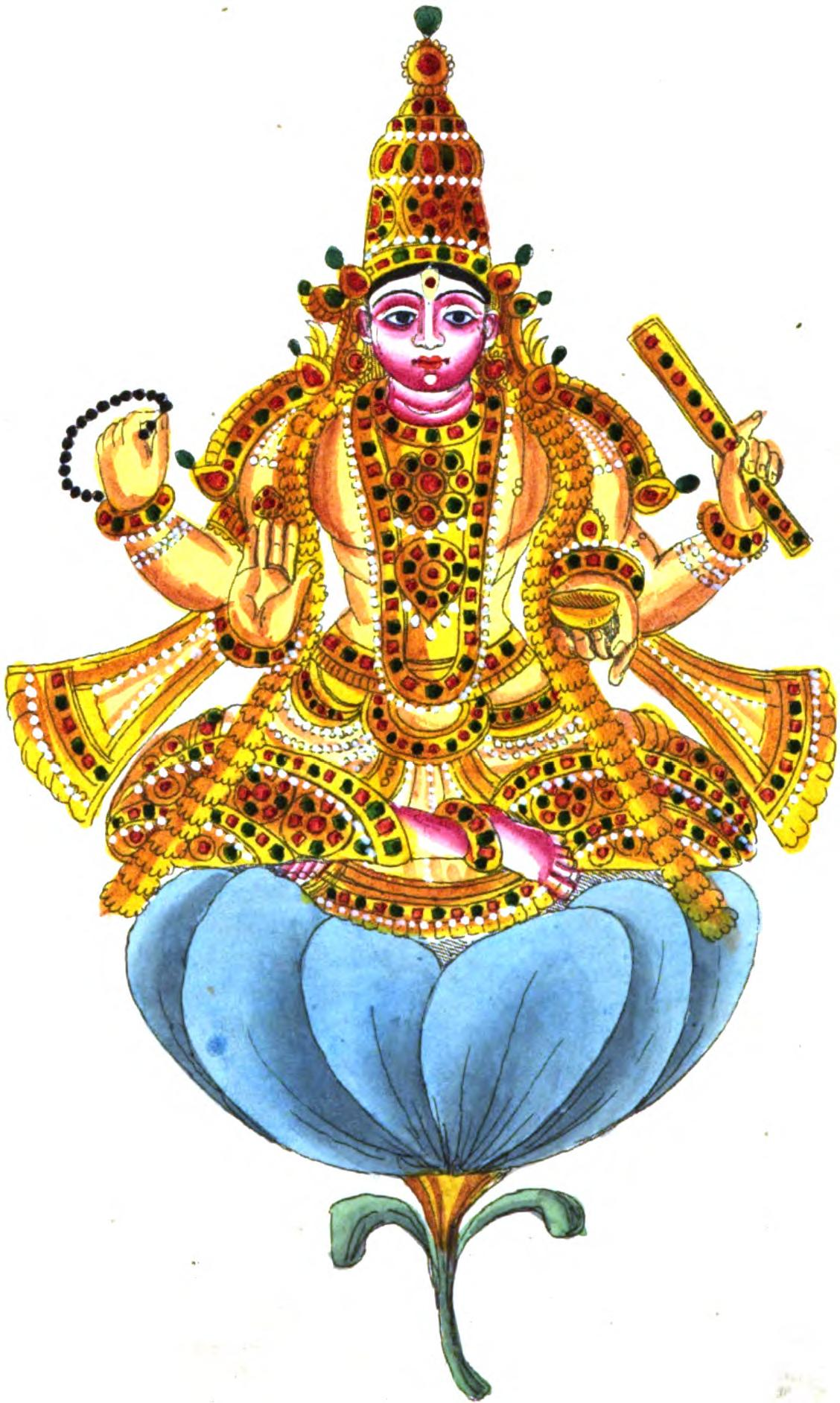 ShardulaHara-muti